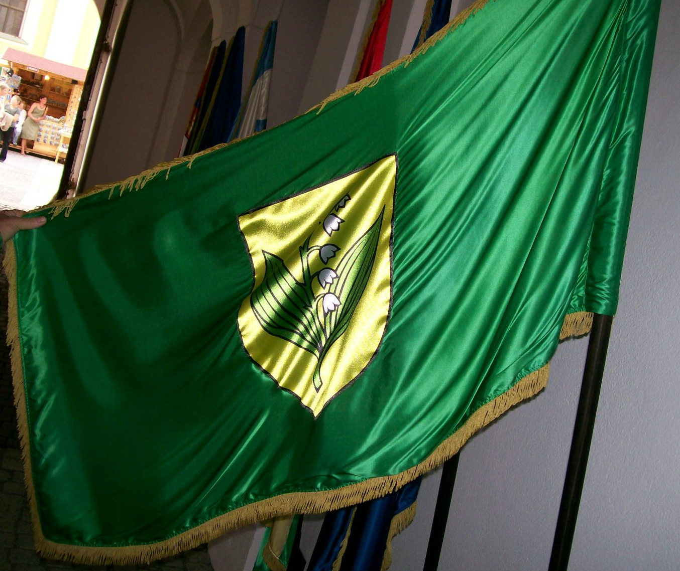 Flag of Municipality of Maruševec, Varaždin County, Croatia ( reverse side of the flag)